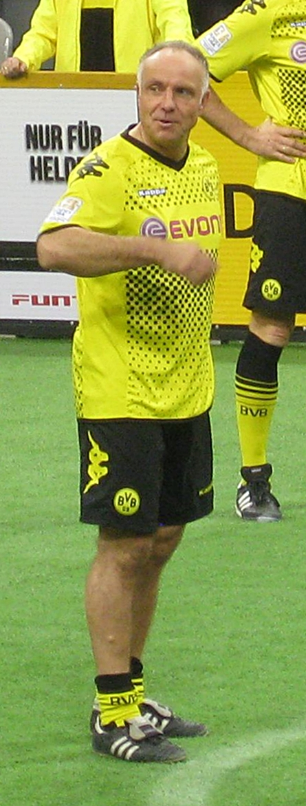 Germany, Bonn, Telekom-Dome: Michael Rummenigge (former german Bundesliga professional soccer player) during a tournament as player of the BVB-traditional team.